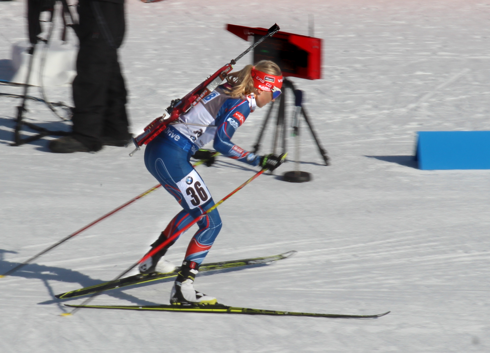 Eva Puskarčíková at Biathlon World Cup 2015 in Nové Město, Czech Republic – sprint women